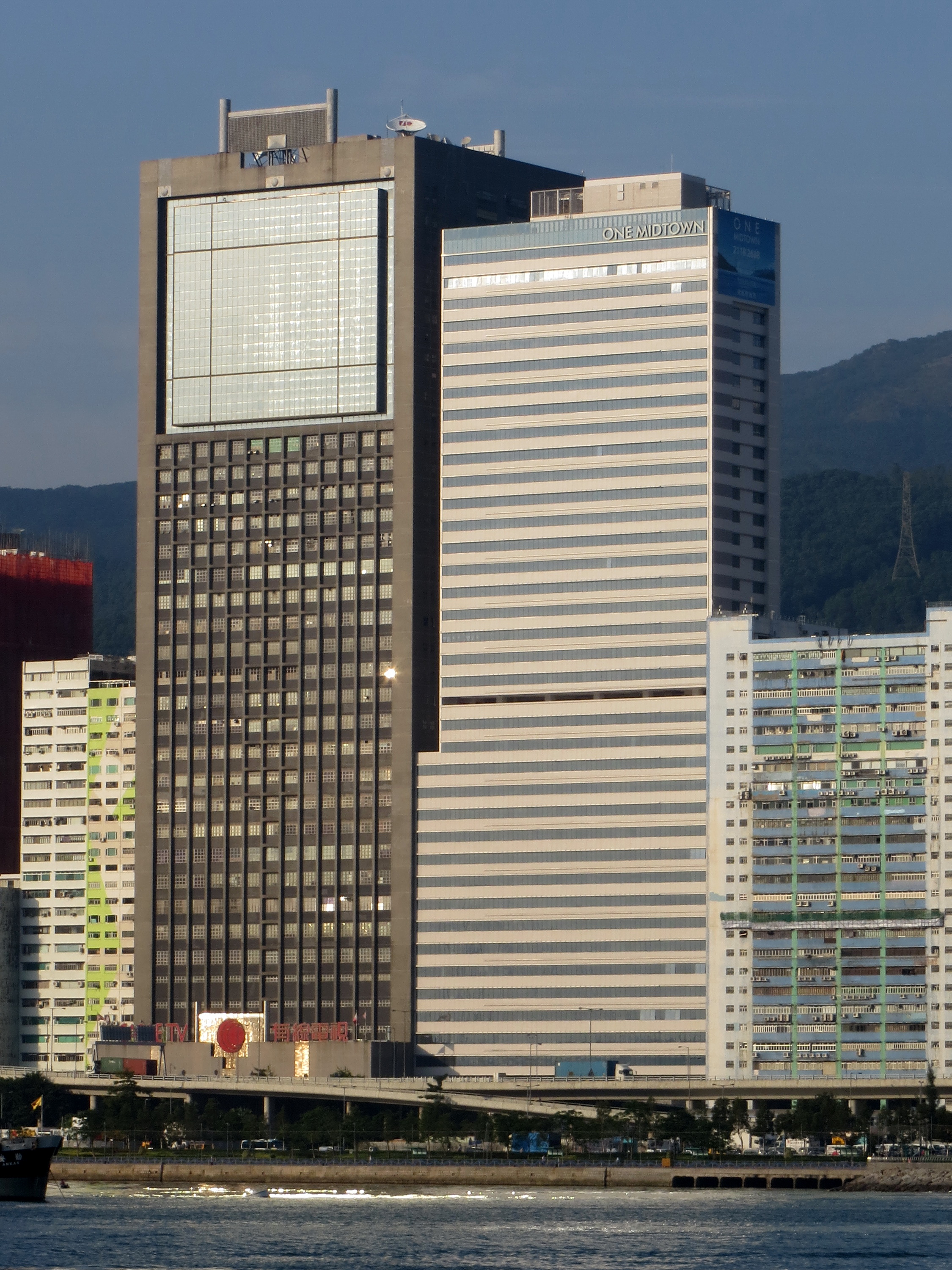 ONE MIDTOWN, Tsuen Wan, Hong Kong.